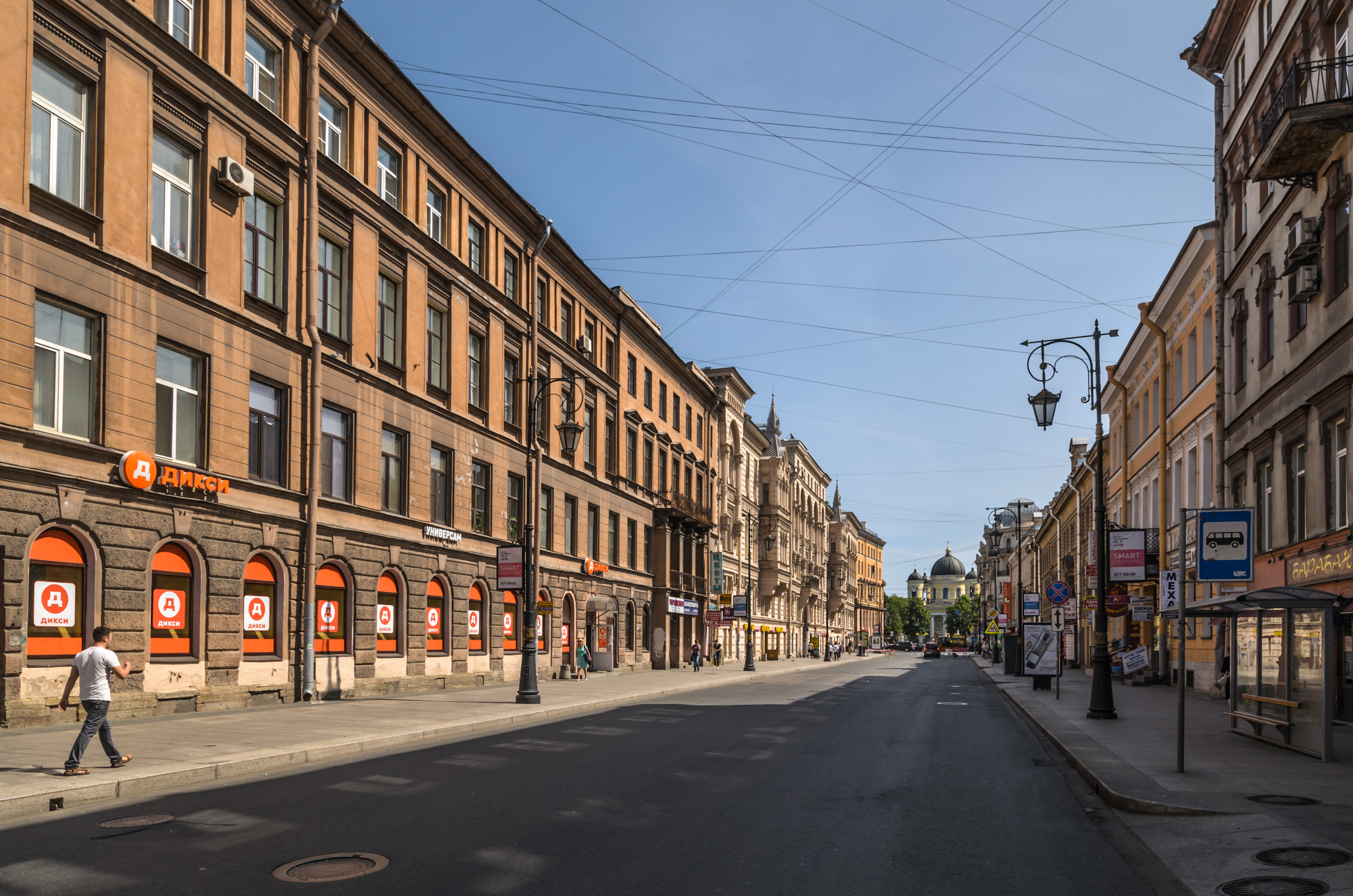 Pestelya Street in Saint Petersburg